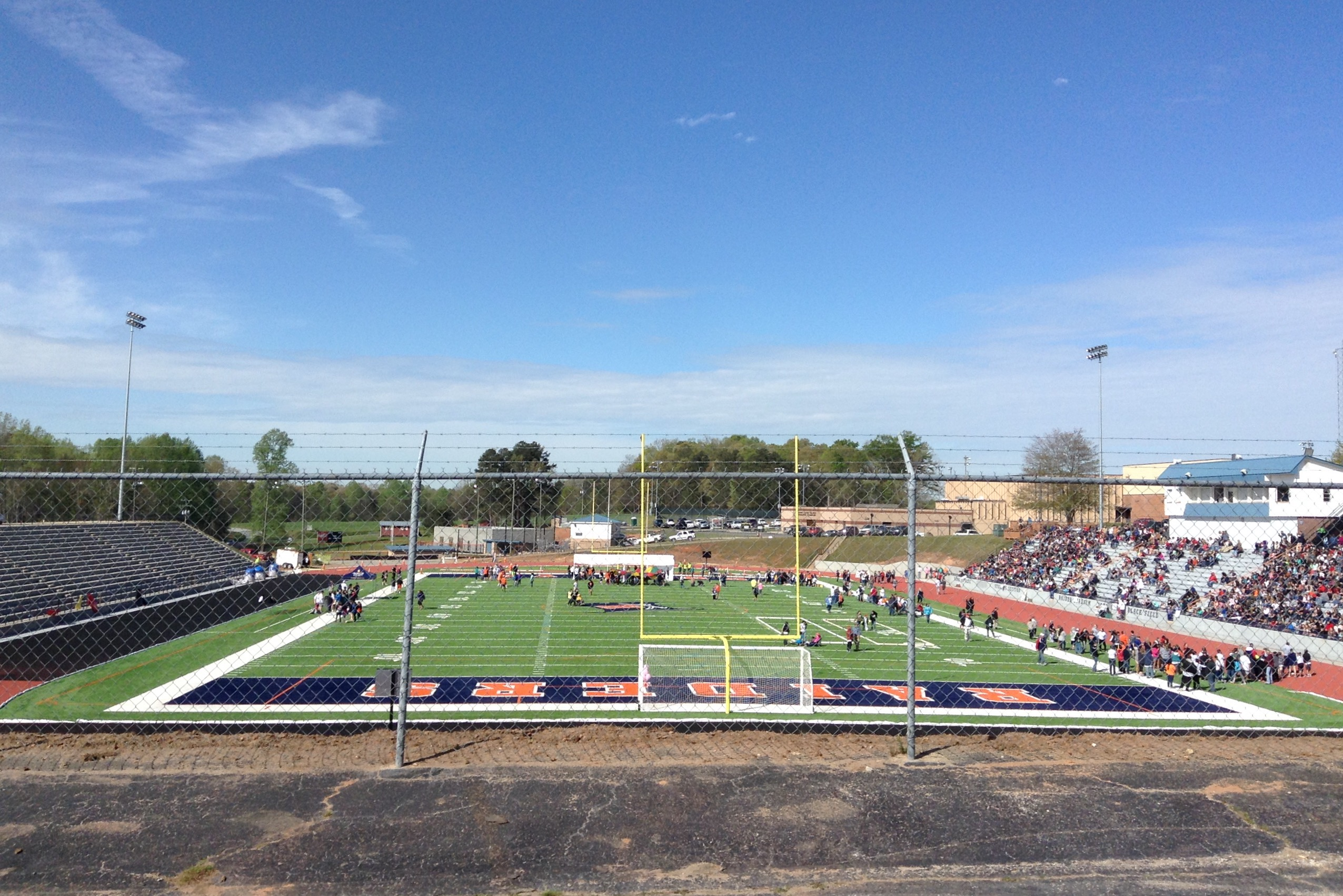 The new AstroTurf field was first used for the 2016 Special Olympic Games on April 15th. The track was halfway completed.